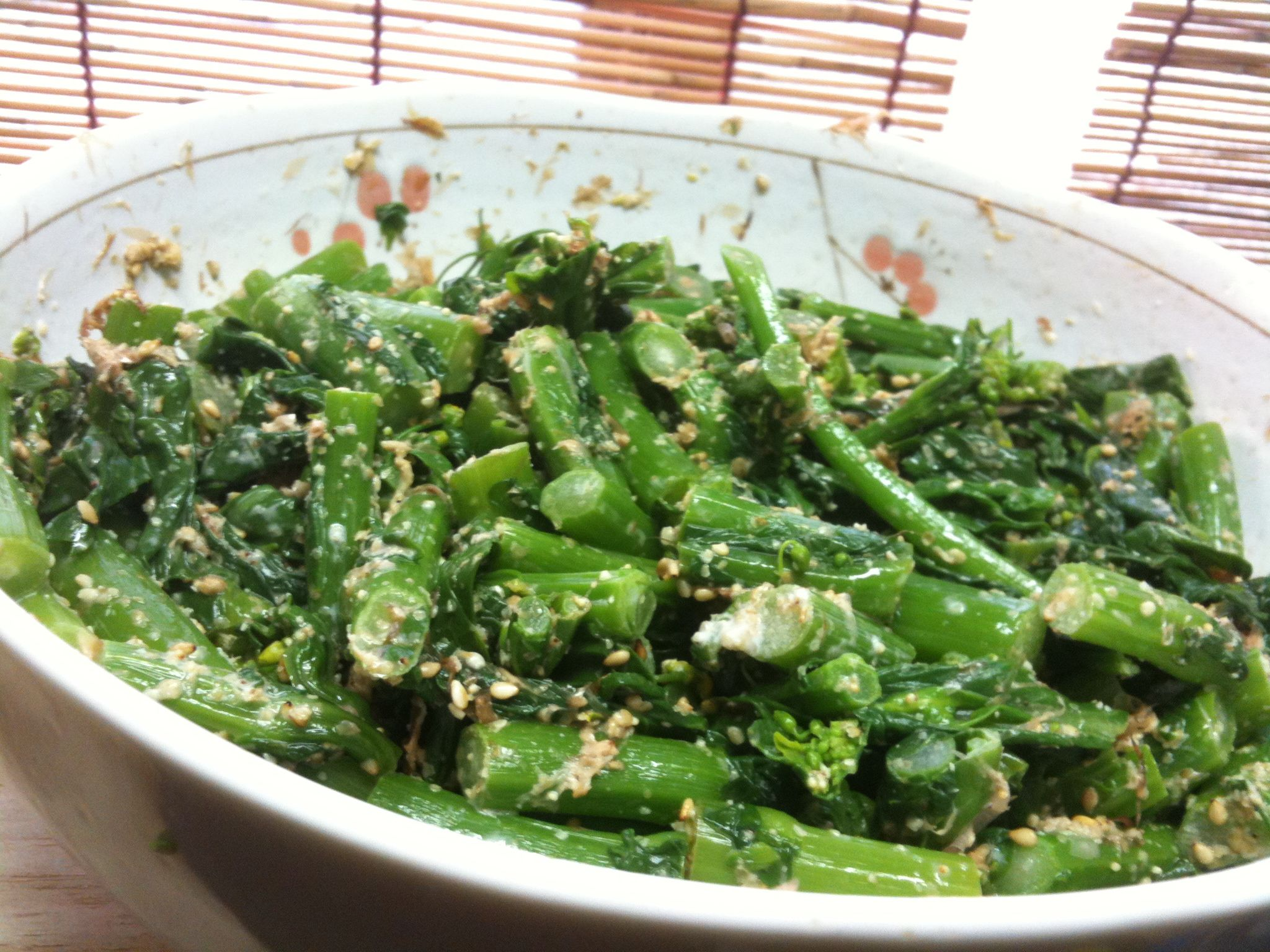 Tenderstem broccoli dressed with sesame sauce